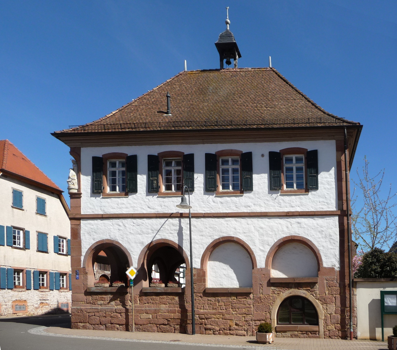 townhall of Venningen in Rhineland-Palatinate, Germany